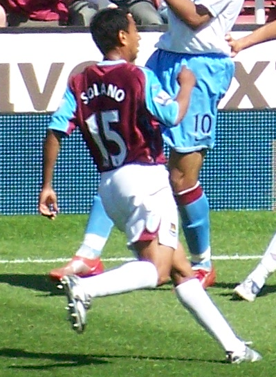 Nolberto Solano. Image cropped from original at Flickr.